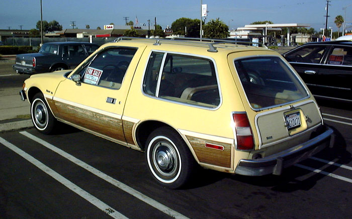 AMC Pacer from the rear. Photo by Morven at the weekly Donut Derelicts car show in Huntington Beach, California on Saturday, July 17, 2004.